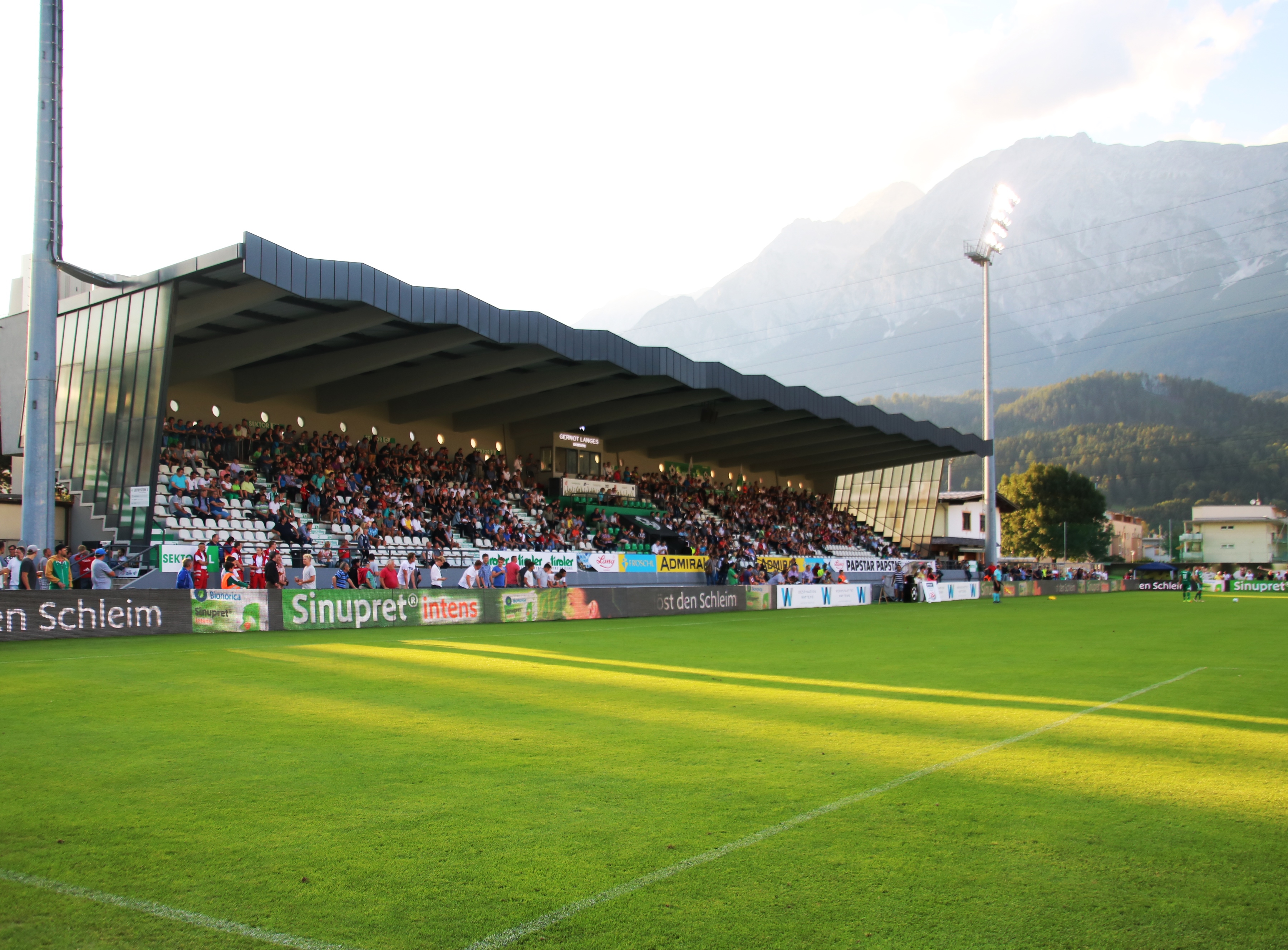 homeground WSG Wattens